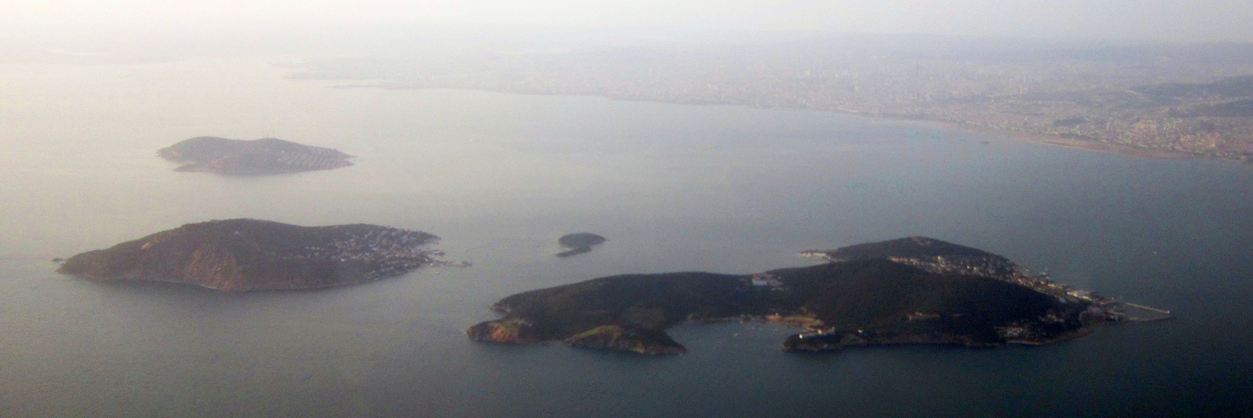 Prince Islands, left to right: Kınalıada, Burgazada, Kaşık Island, Heybeliada